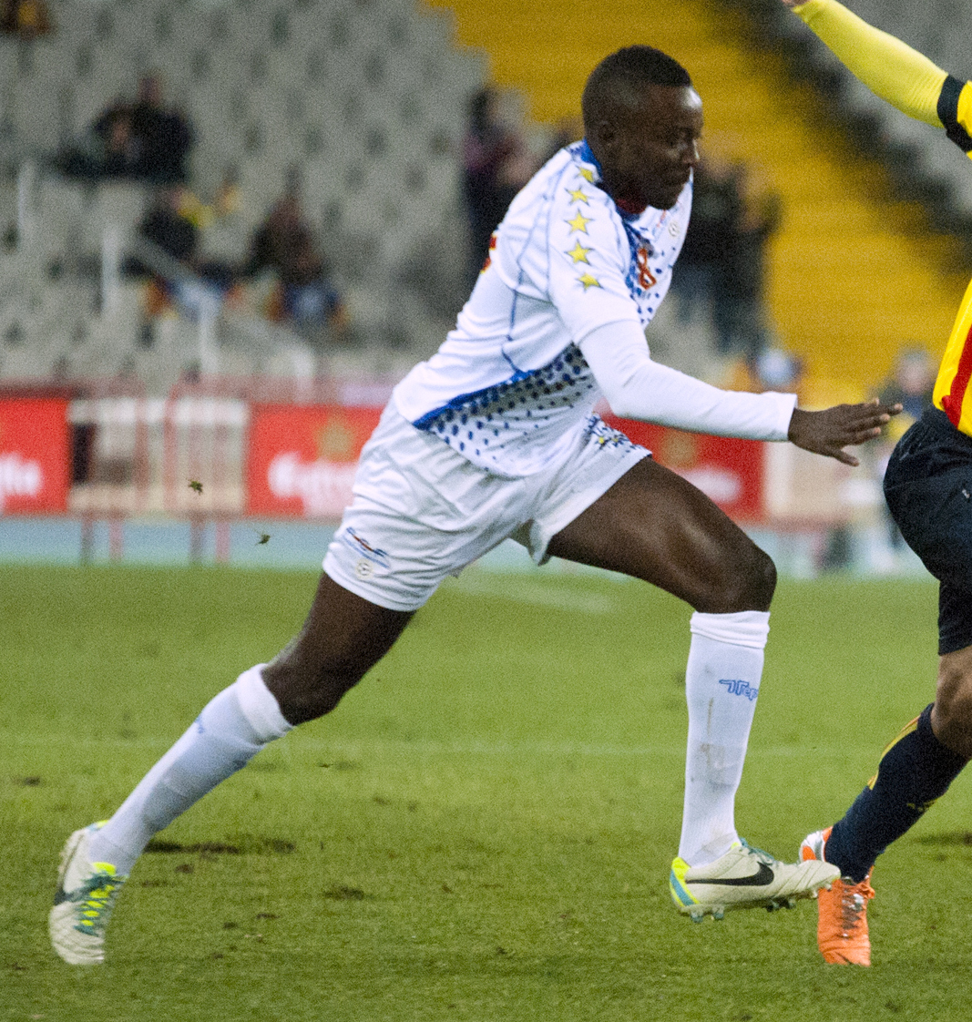 Cape Verdean international football player Toni Varela during friendly match Catalonia vs. Cape Verde